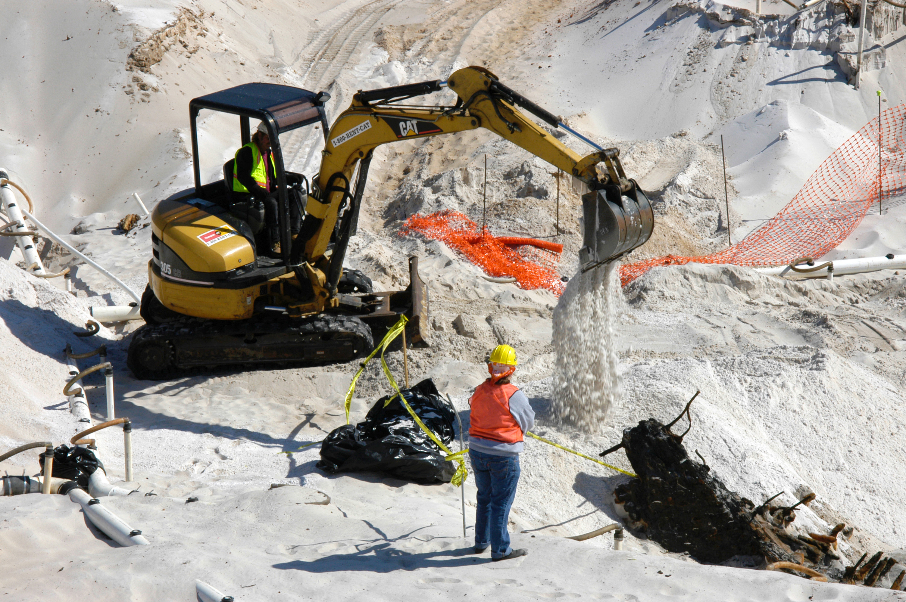 Pensacola, Fla. (March 24, 2006) - Using a mini excavator, a heavy equipment operator with the Pittsburgh, Pa.-based, Dick Corp. carefully covers the remains of a wrecked wooden ship aboard Naval Air Station Pensacola, with a layer of clean sand while an archaeologist from New South Associates, of Stone Mountain, Ga. looks on. The artifact was discovered during the early construction phase of a new Rescue Swimmer School on board the air station. New South Assoc. Archaeologists conducted a phase II archaeological survey on behalf of the Navy to determine if the remains were historically significant and whether they should be eligible for the National Historic Register. The Navy has determined the archaeological find is significant and will remain undisturbed until it can be properly excavated at a later date. U.S. Navy photo by Gary Nichols (RELEASED)